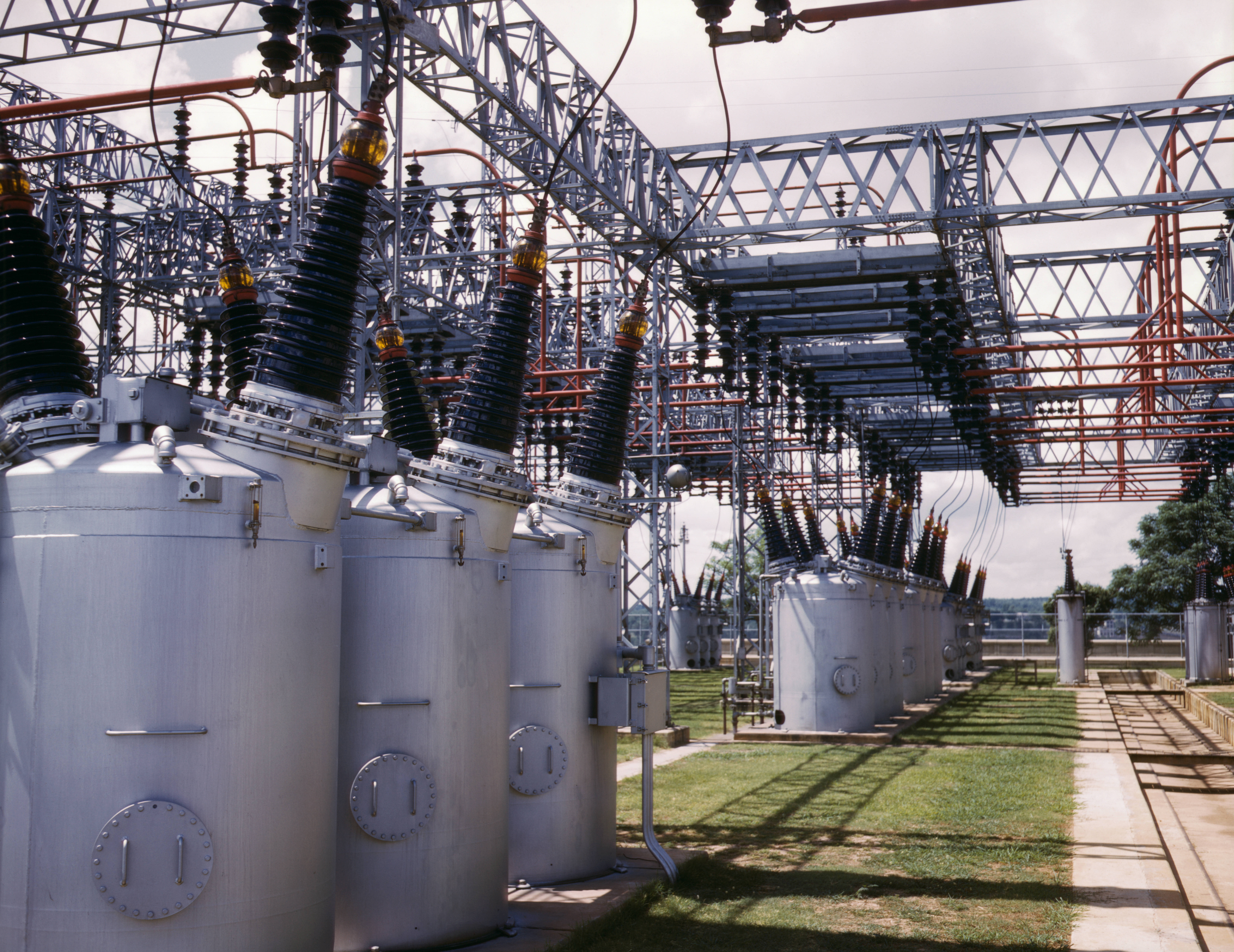 Switchyard at TVA's Wilson Dam hydroelectric plant, vicinity of Sheffield, Ala., 260 miles above the mouth of the Tennessee River.